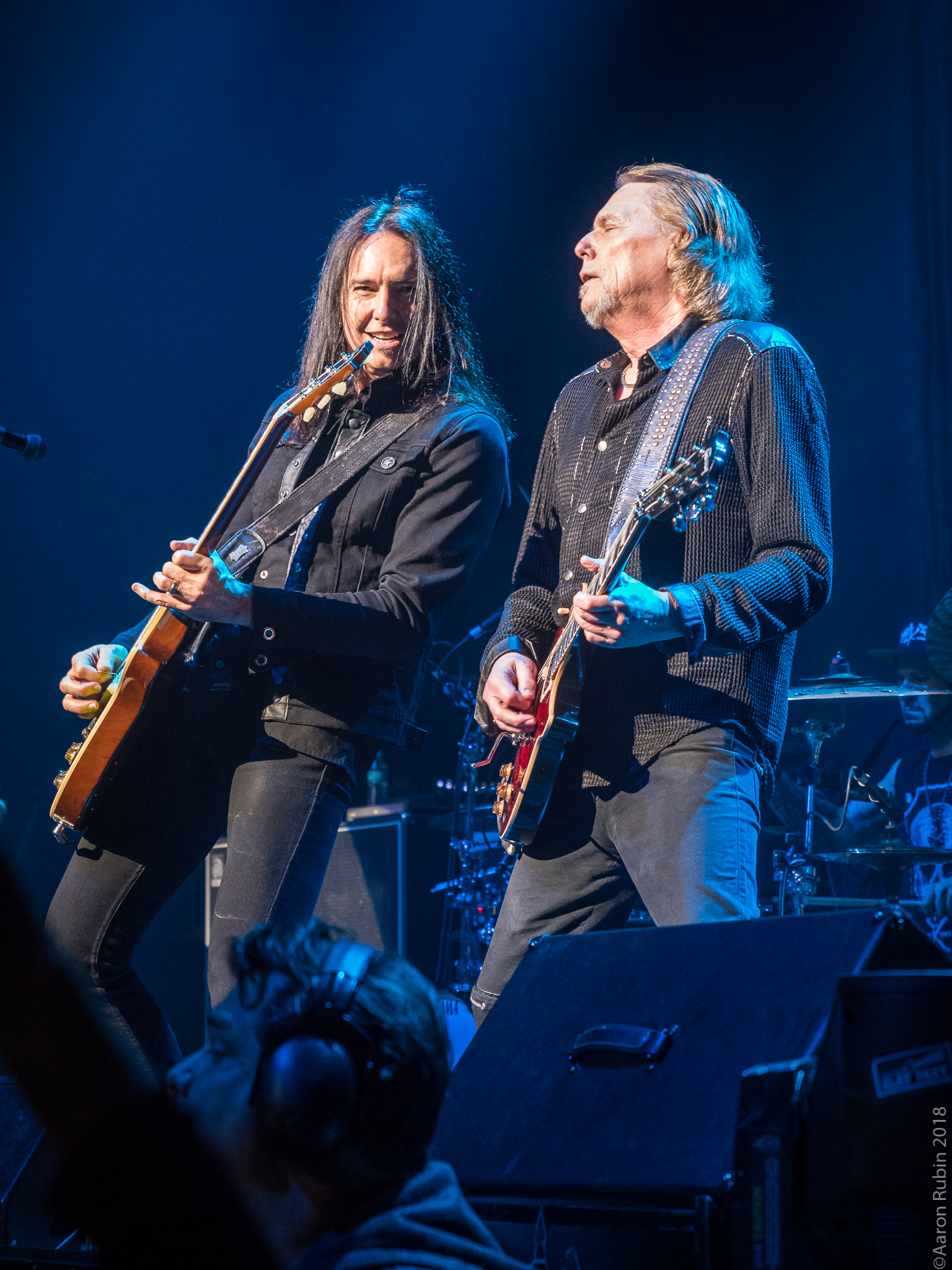 Black Star Riders at The Warfield Theater in San Francico, opening for Judas Priest and Saxon 4-19-2018